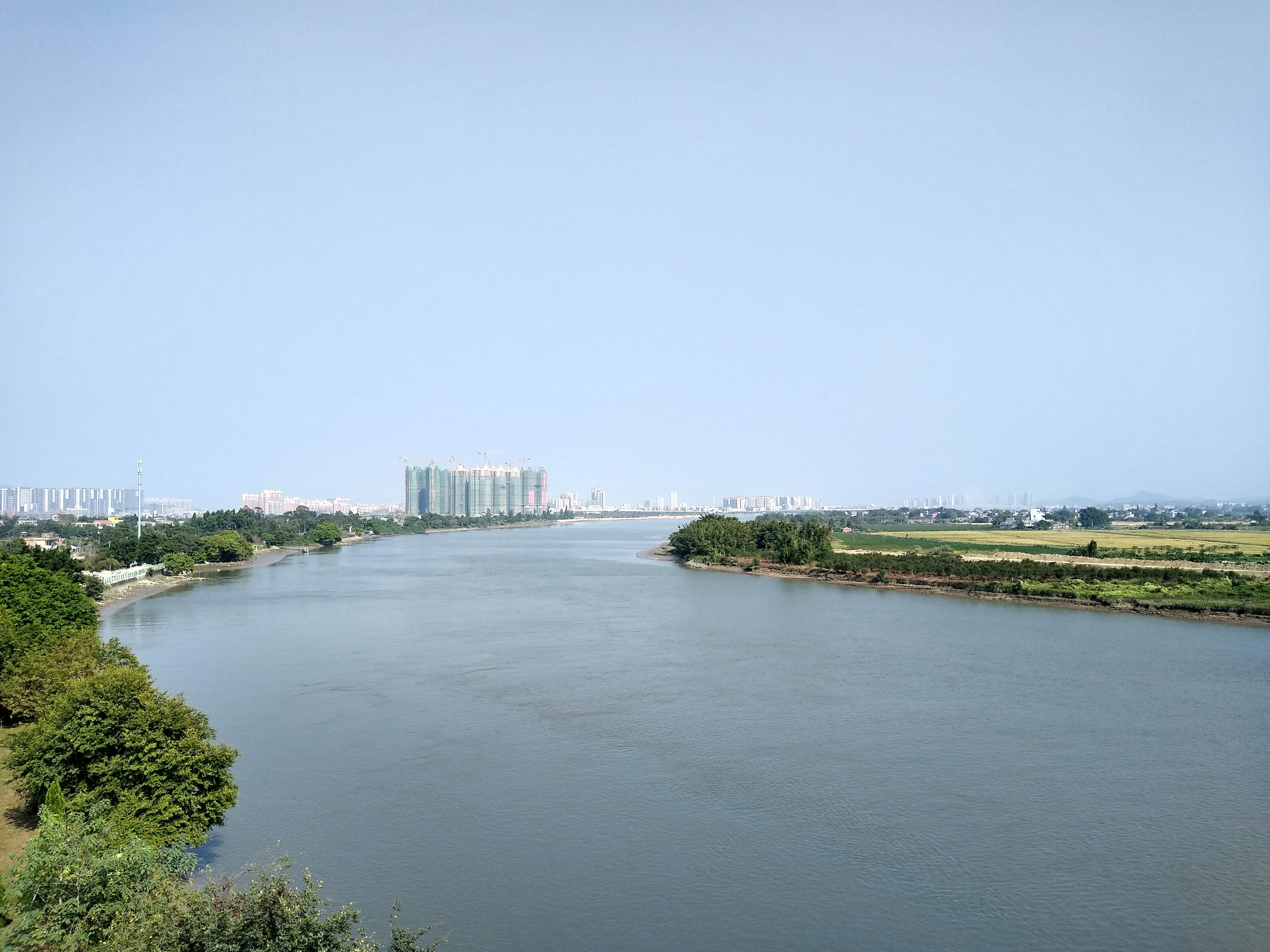 The Tanjiang River (潭江) seen from the South Tower (南楼) in Kaiping (开平), China.